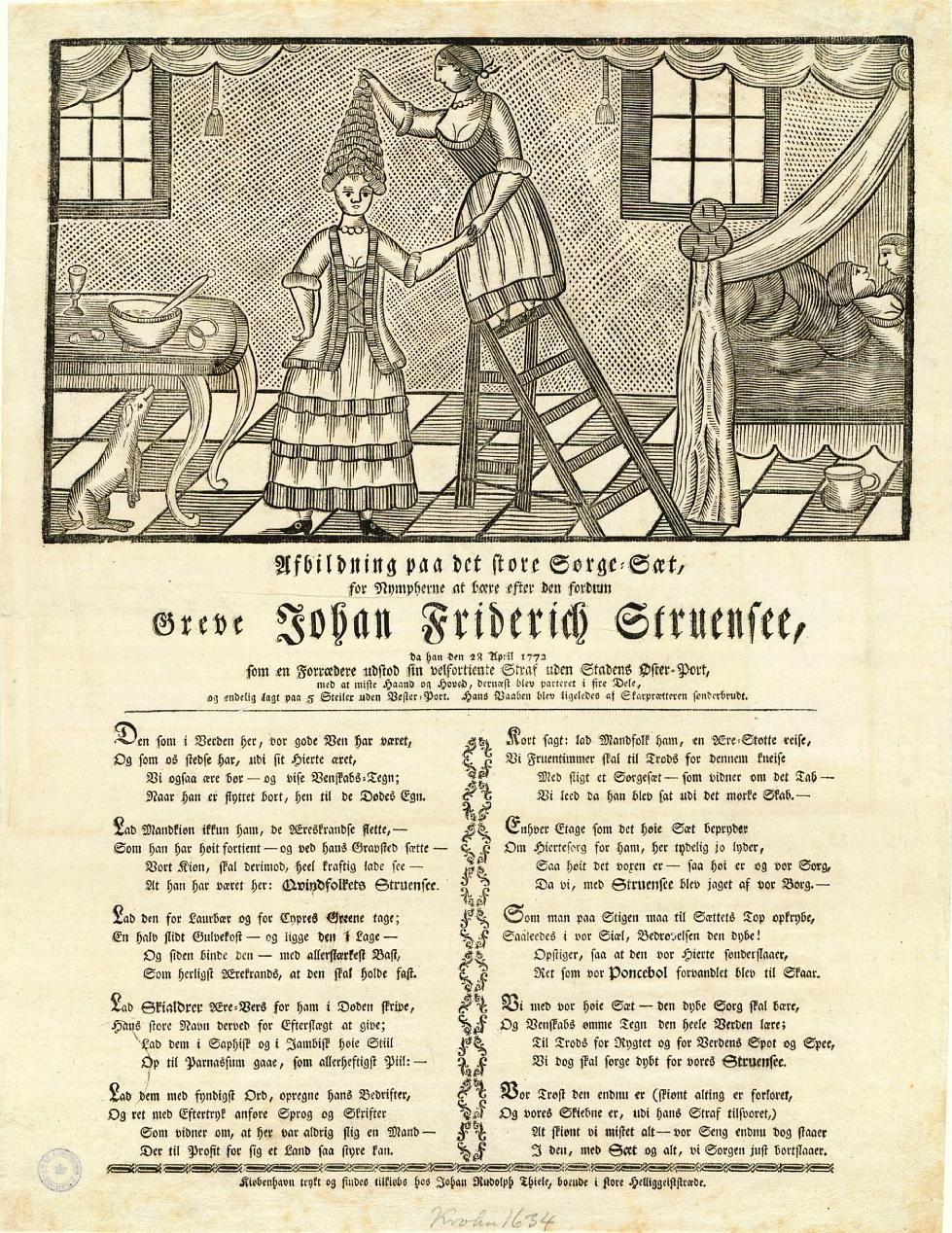 Satirical print on Struensee.